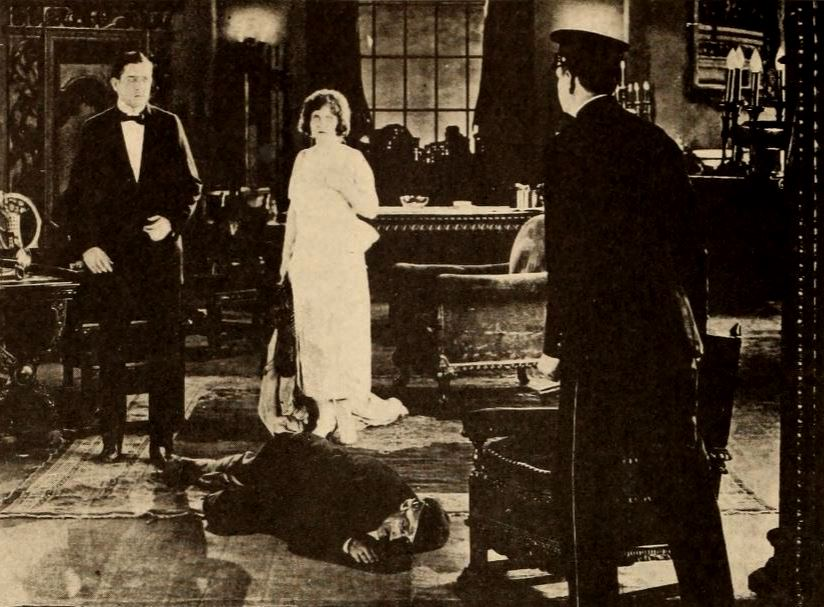 Still from the American film The Bait (1921) with Harry Woodward, Hope Hampton, and Joseph Singleton (man dead on floor) on page 64 of the August 7, 1920 Exhibitors Herald.